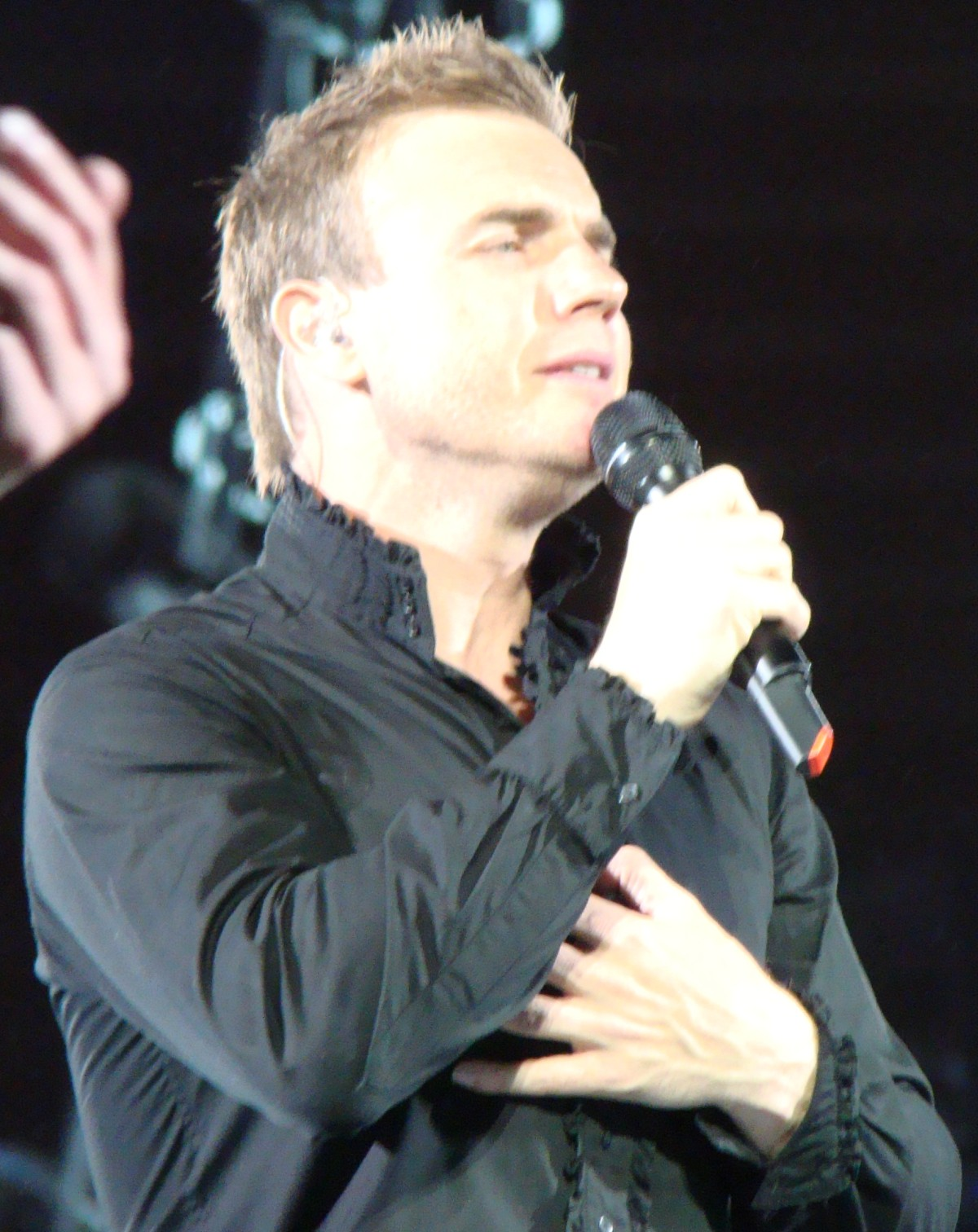 Gary Barlow onstage in 06/06/2009 in Sunderland in concert.